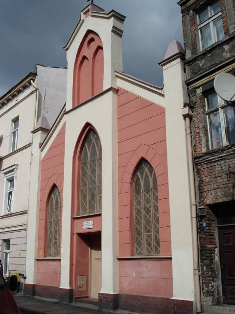 The Evangelical Augsburg Chapel in Toruń, built 1868